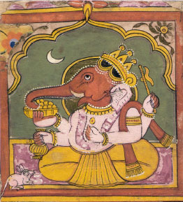 Seated Ganesh miniature. Rajasthan. Folkstyle